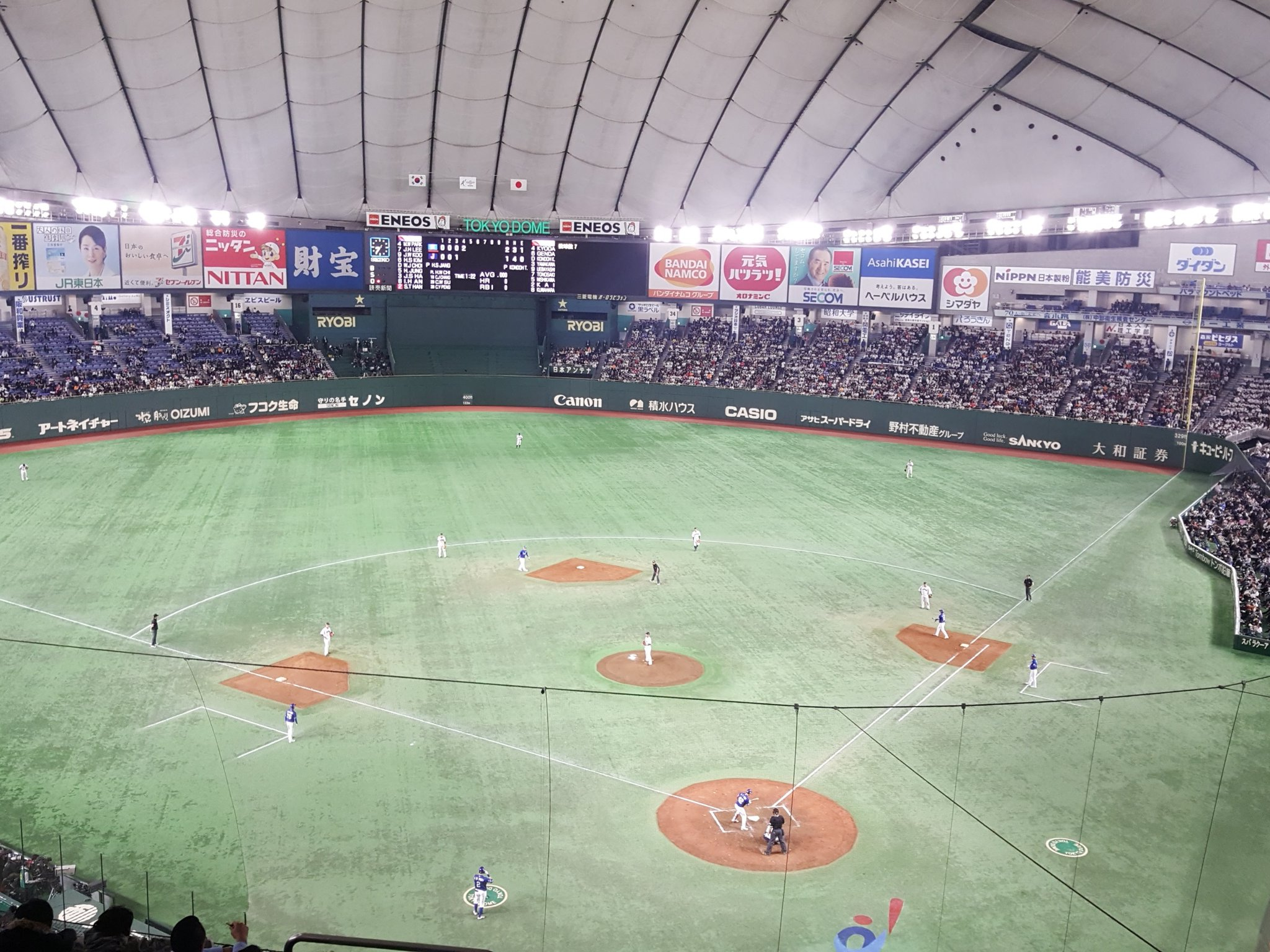 Asia Professional Baseball Championship 2017 match between Japan and South Korea in Tokyo Dome on November 16, 2017.